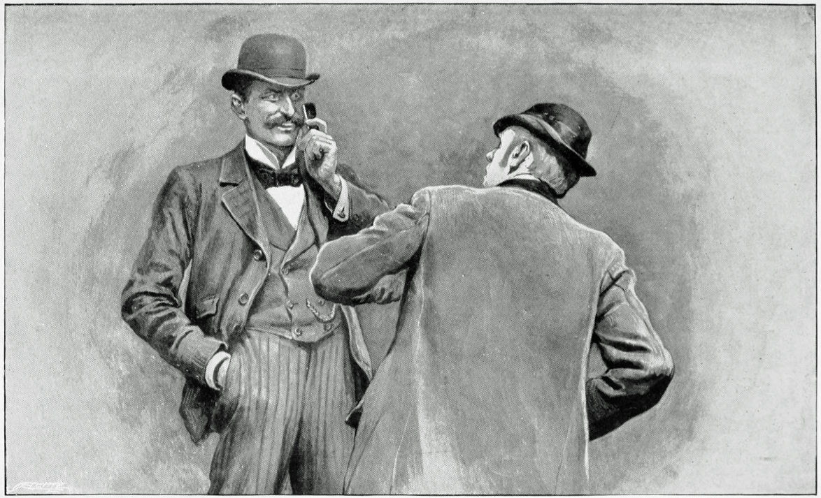 Plate 9 from "The Dorrington Deed-Box" by Arthur Morrison, 1897.